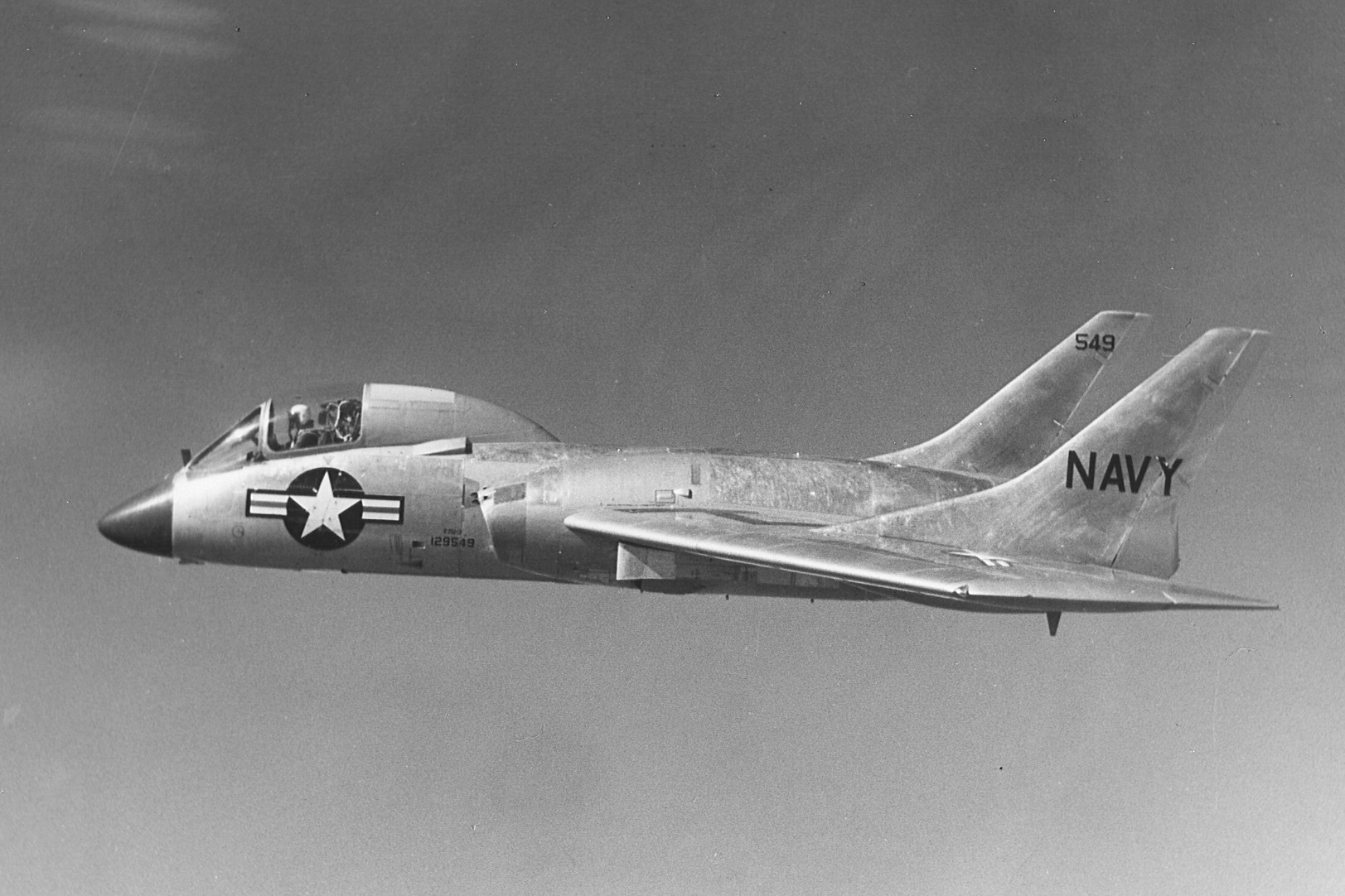 A U.S. Navy Vought F7U-3 Cutlass (BuNo 129549) in flight.